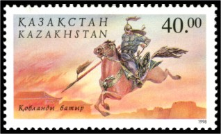 Stamp of Kazakhstan